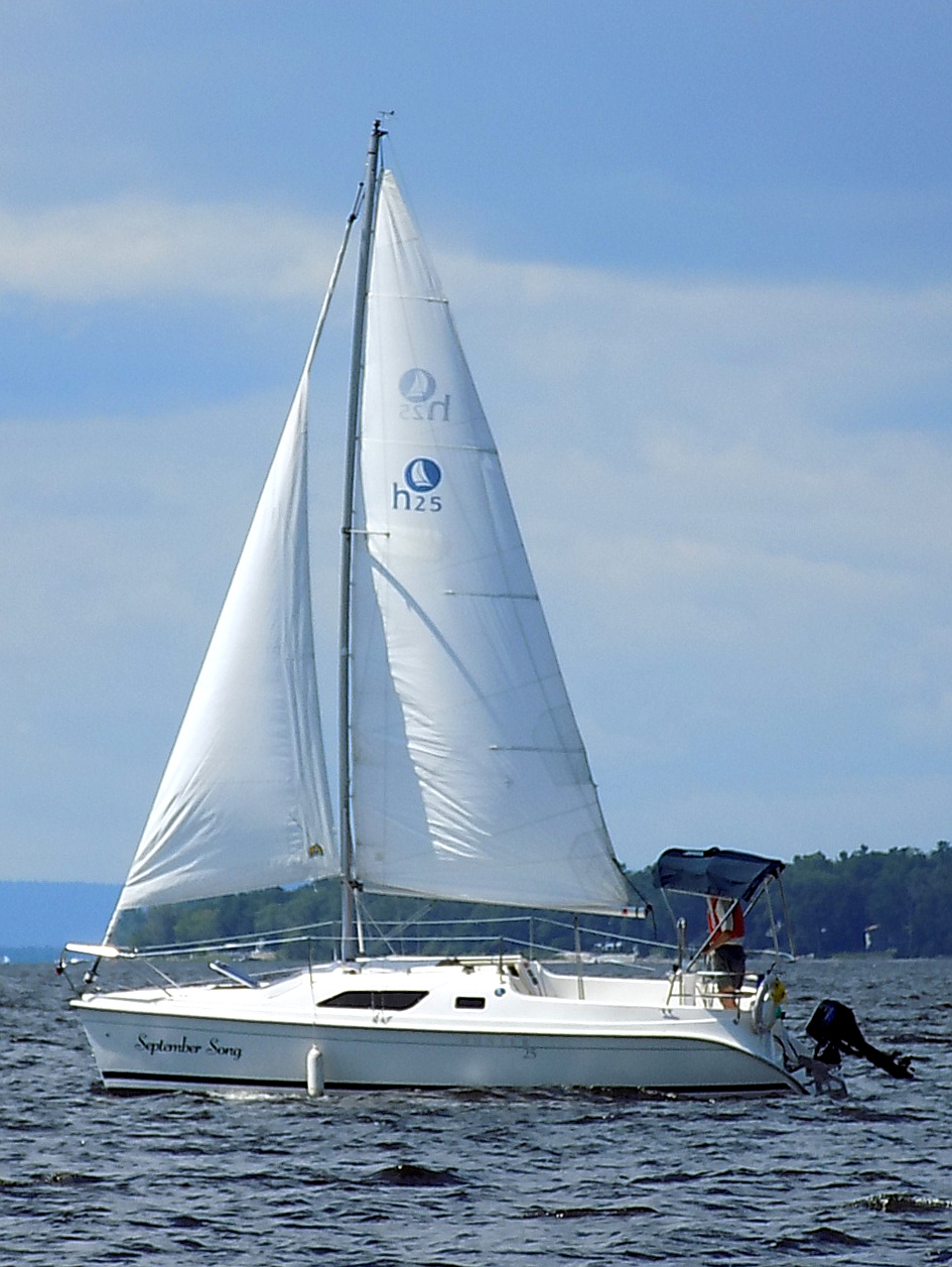 A Hunter 25 sailboat named September Song.